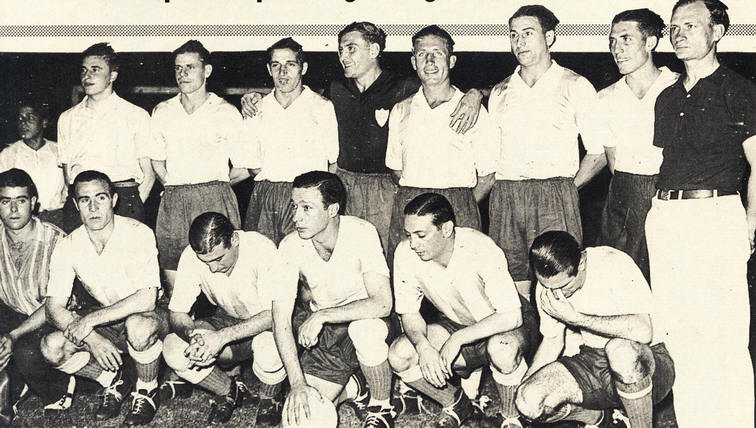 Argentina national football team that beat Brazil 1-0 at Campeonato Sudamericano.